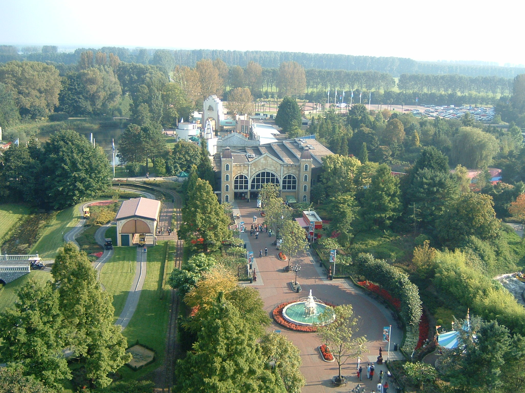 View from the ferris wheel La Grande Roue in Walibi World, showing the Hollywood main street and behind that the entrance.